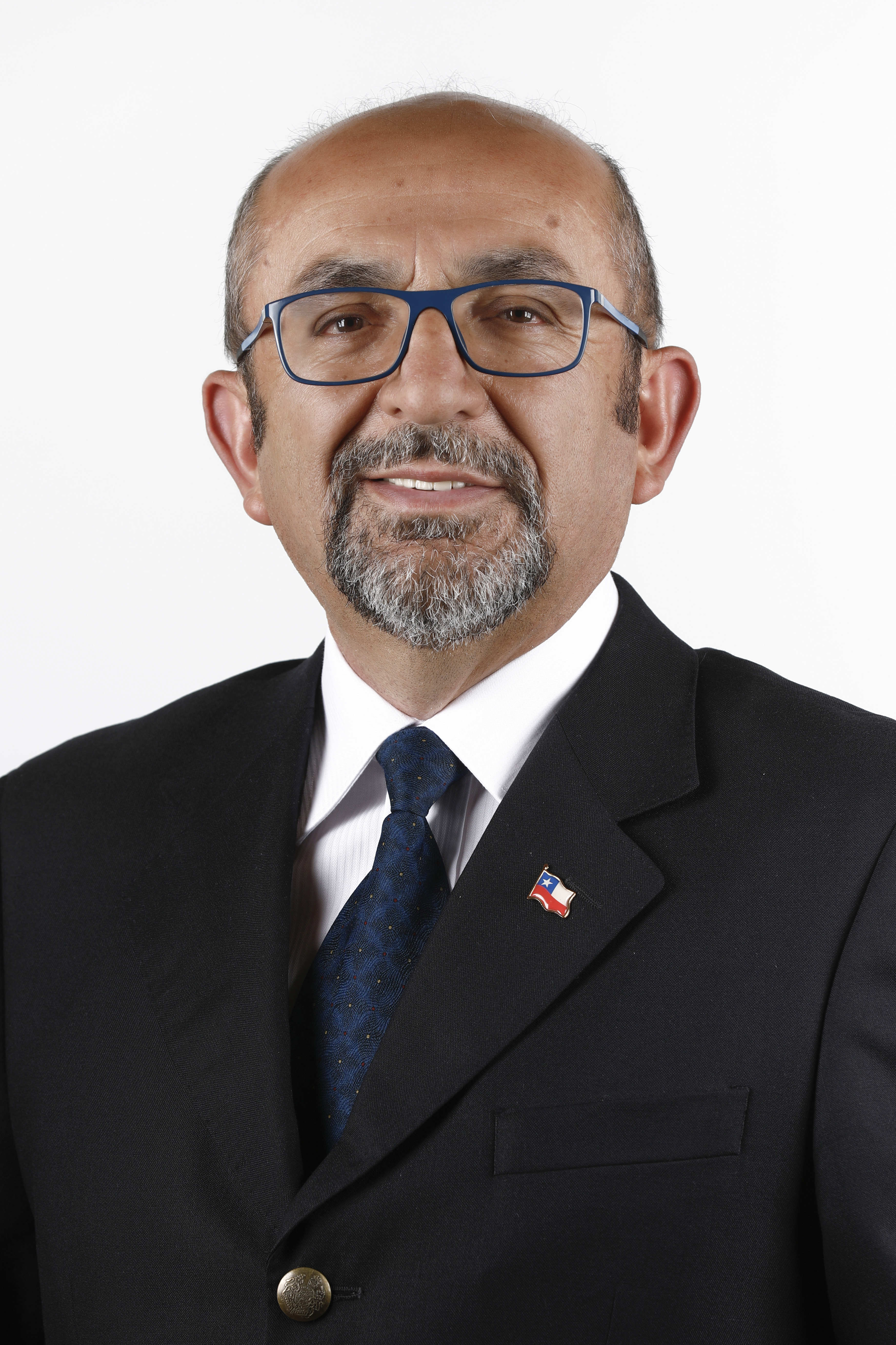 Leonidas Andrés Romero Sáez en la fotografía oficial de diputados periodo 2018-2022. (Fotos: Christel Andler, René Lescornez, Johanna Zárate)